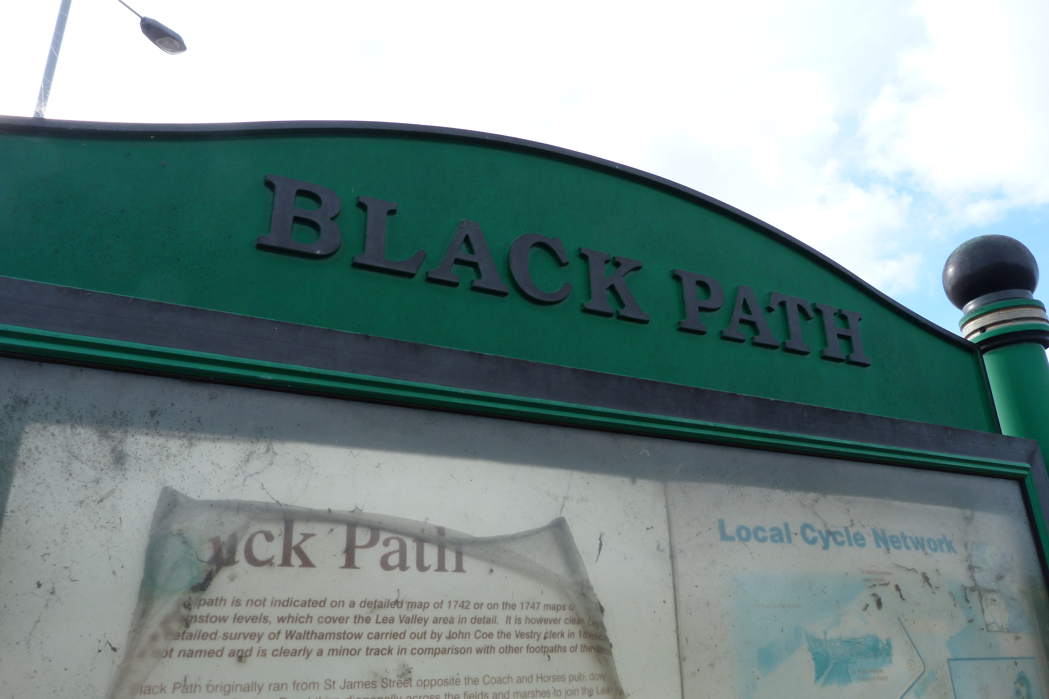 Black Path (sign) Walthamstow, London, UK, near South Access Road